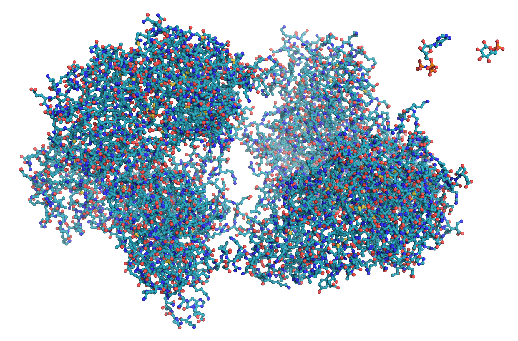 I am author. Same as Hexokinase_ball_and_stick_model,_with_substrates_to_scale.png but this is 16-color and compressed for smaller file size.